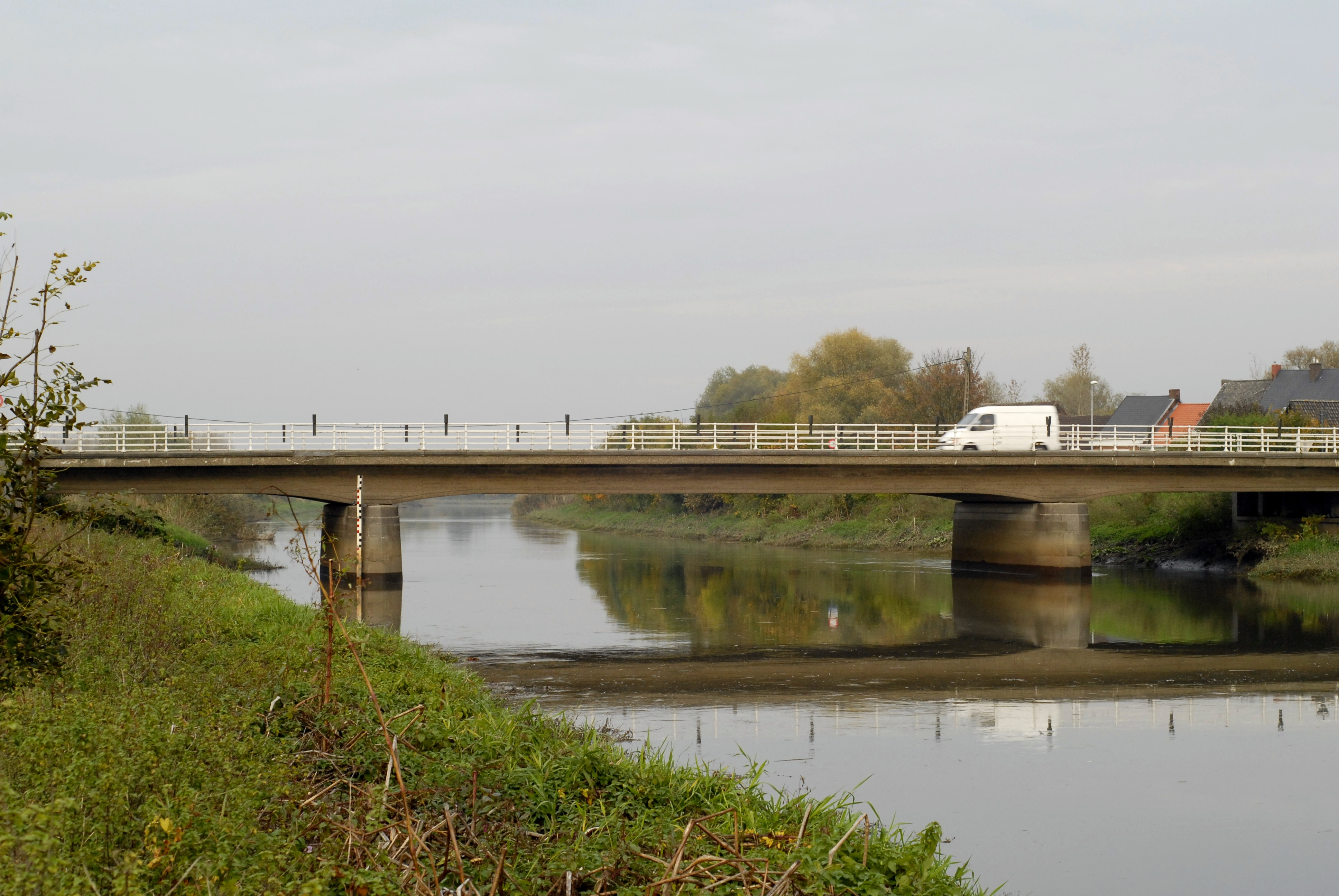 Heffenbridge on the Zenne in Mechelen